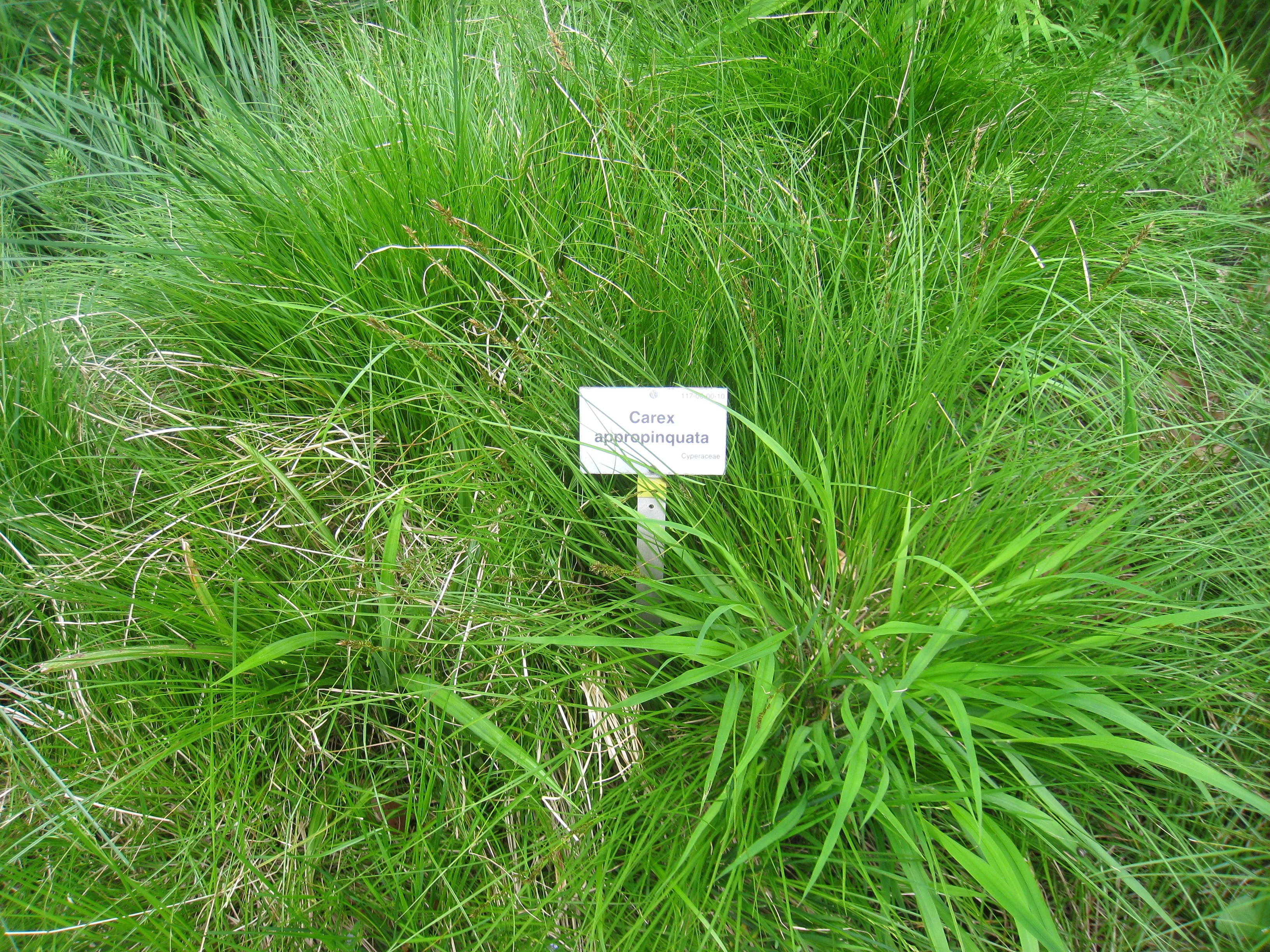 Carex appropinquata specimen, in the Botanischer Garten, Berlin-Dahlem (Berlin Botanical Garden), Berlin, Germany.